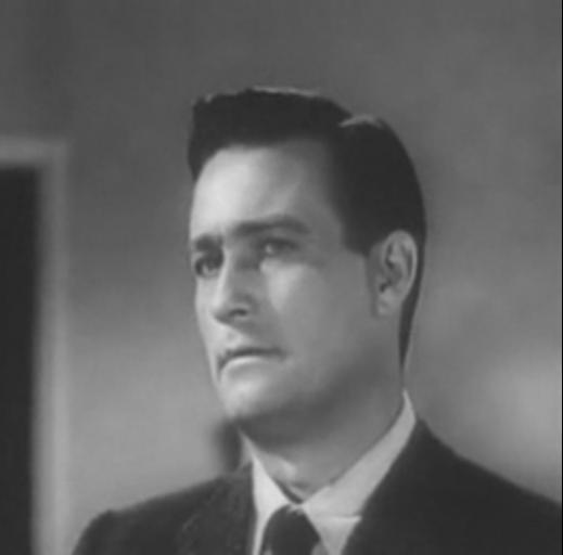 Glen Corbitt in The Violent Years